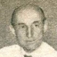 Osvaldo Mario Venturi- pintor